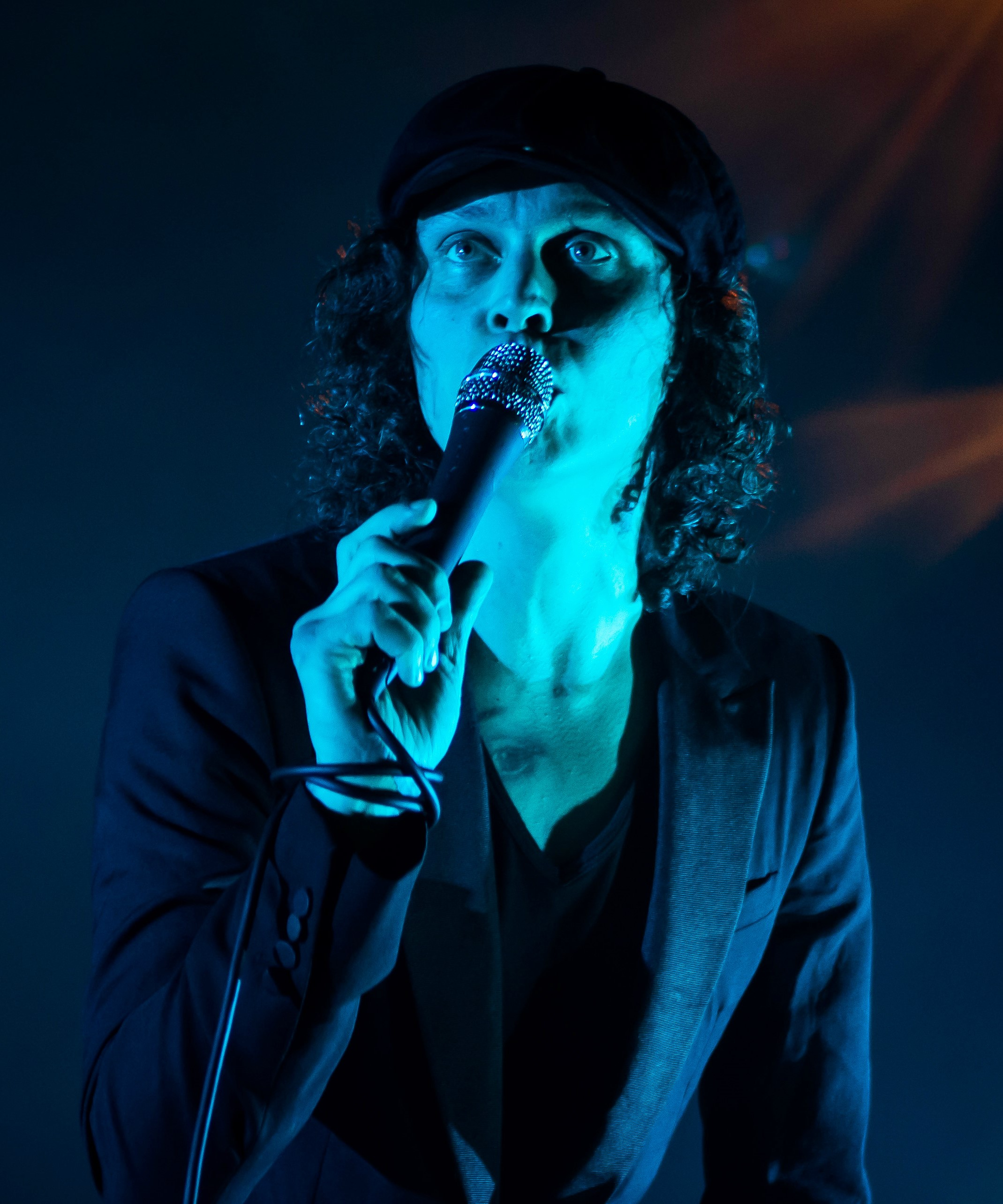 Him performing in São Paulo, Brazil on March 30, 2014.